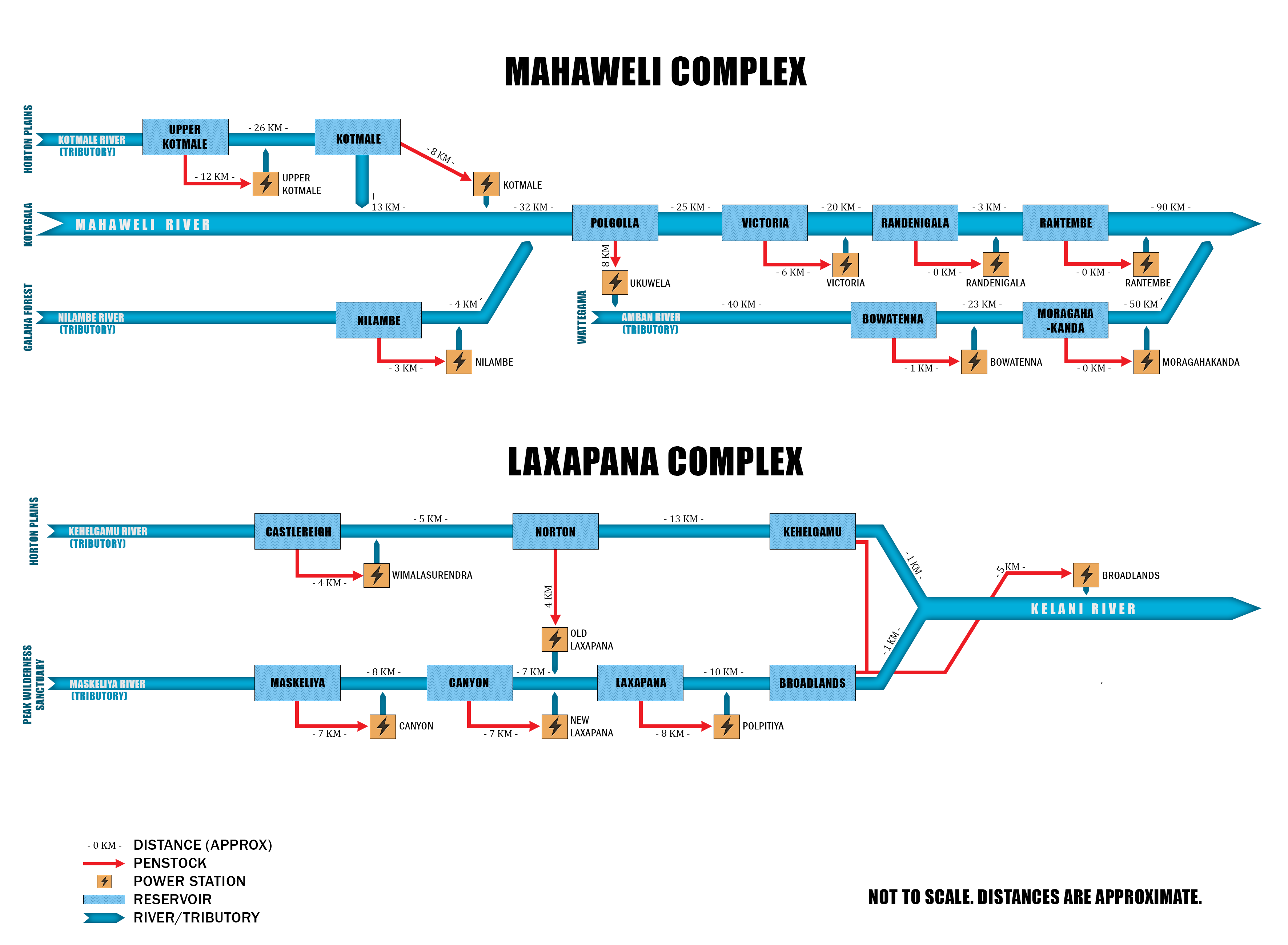 Schematics of the two hydroelectric complexes of Sri Lanka.